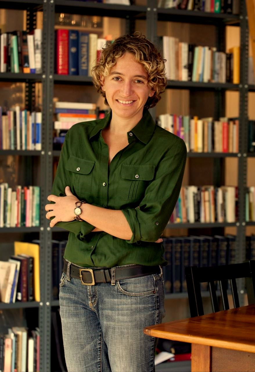 American journalist and author Kathryn Schulz